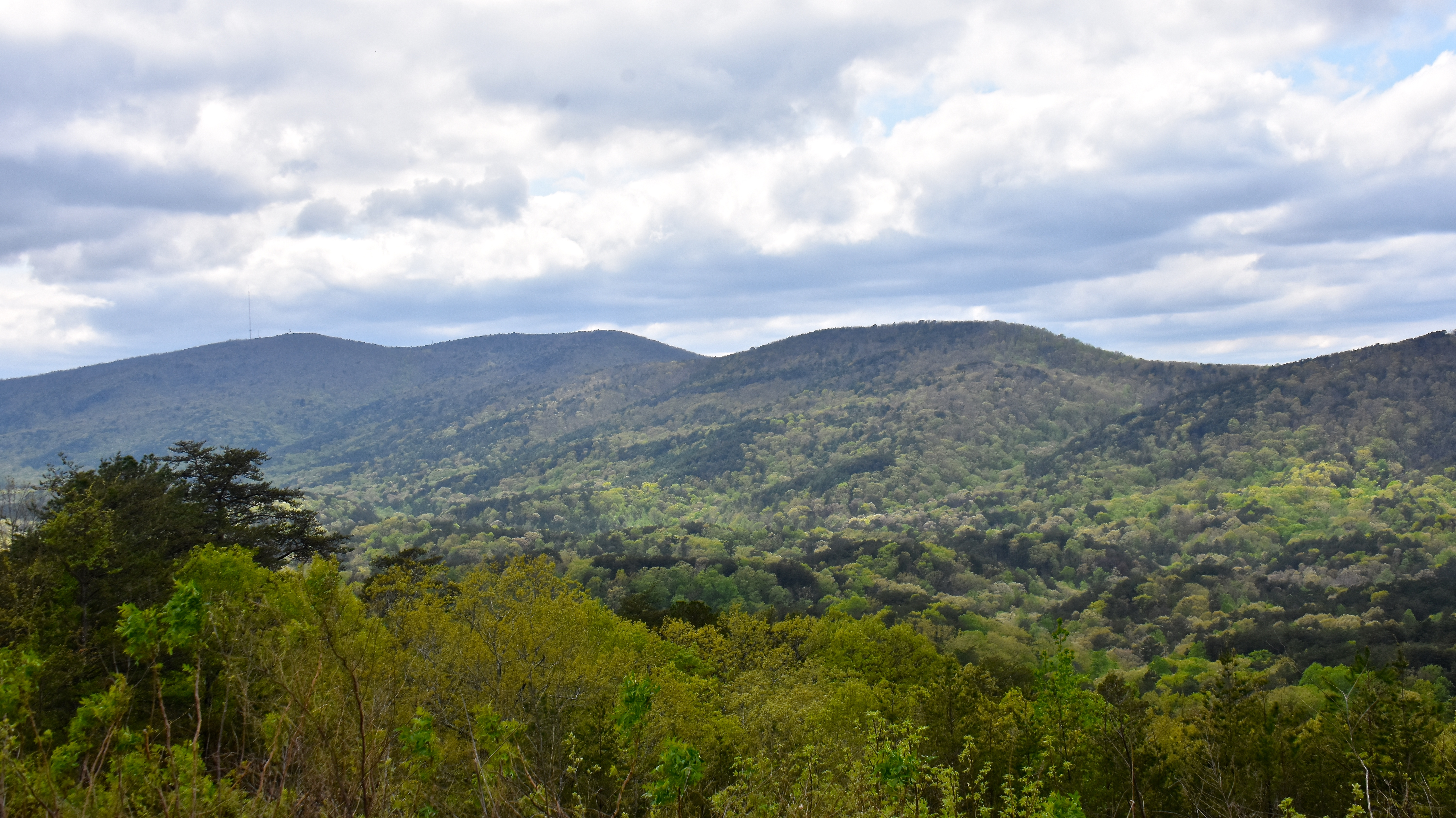 Cheaha Mountain is the highest point in Alabama with an elevation of 2,413 feet.